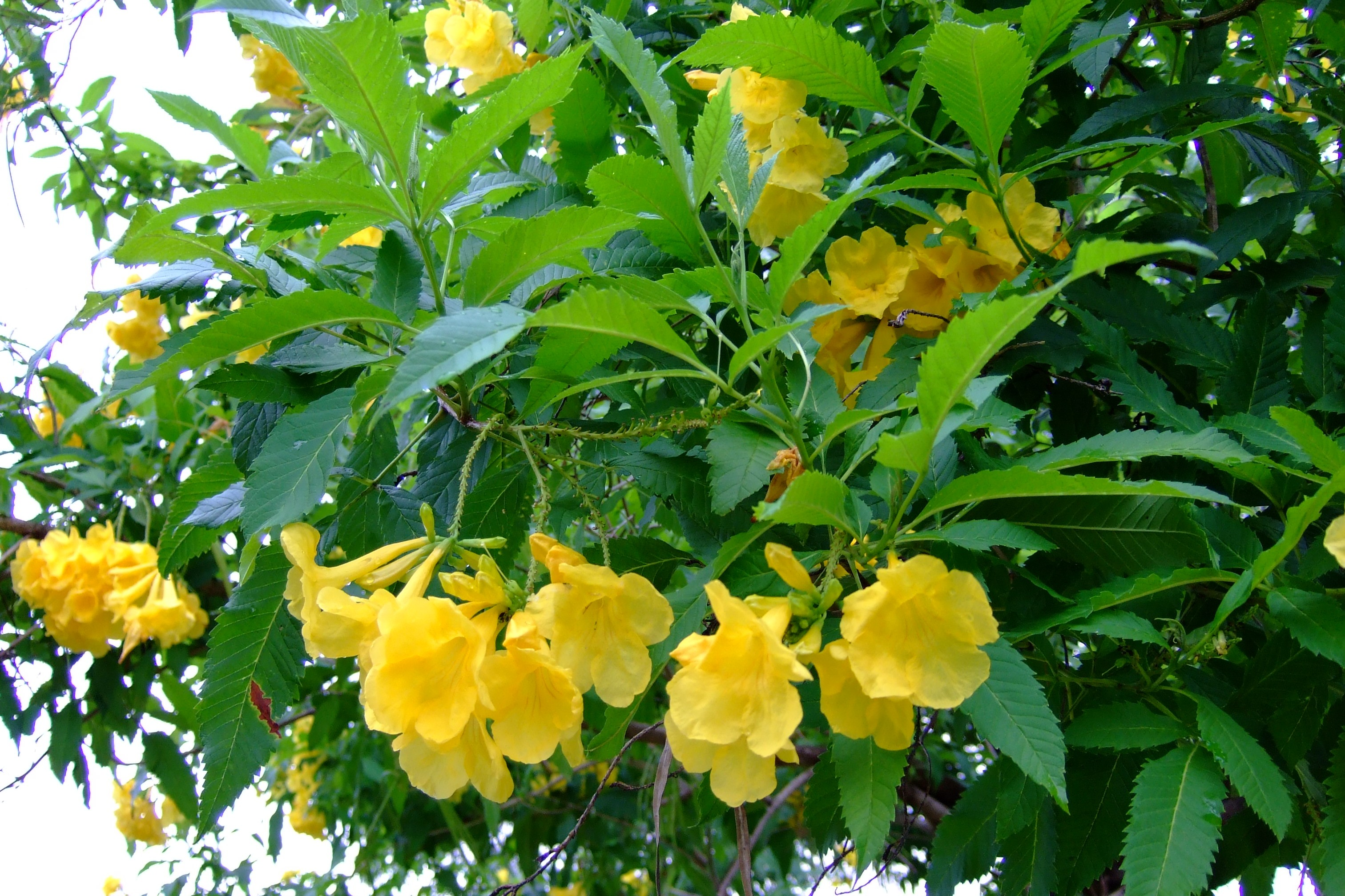 Tecoma stans; Yellow bell; n̂g-cheng-hoe; 黃鐘花